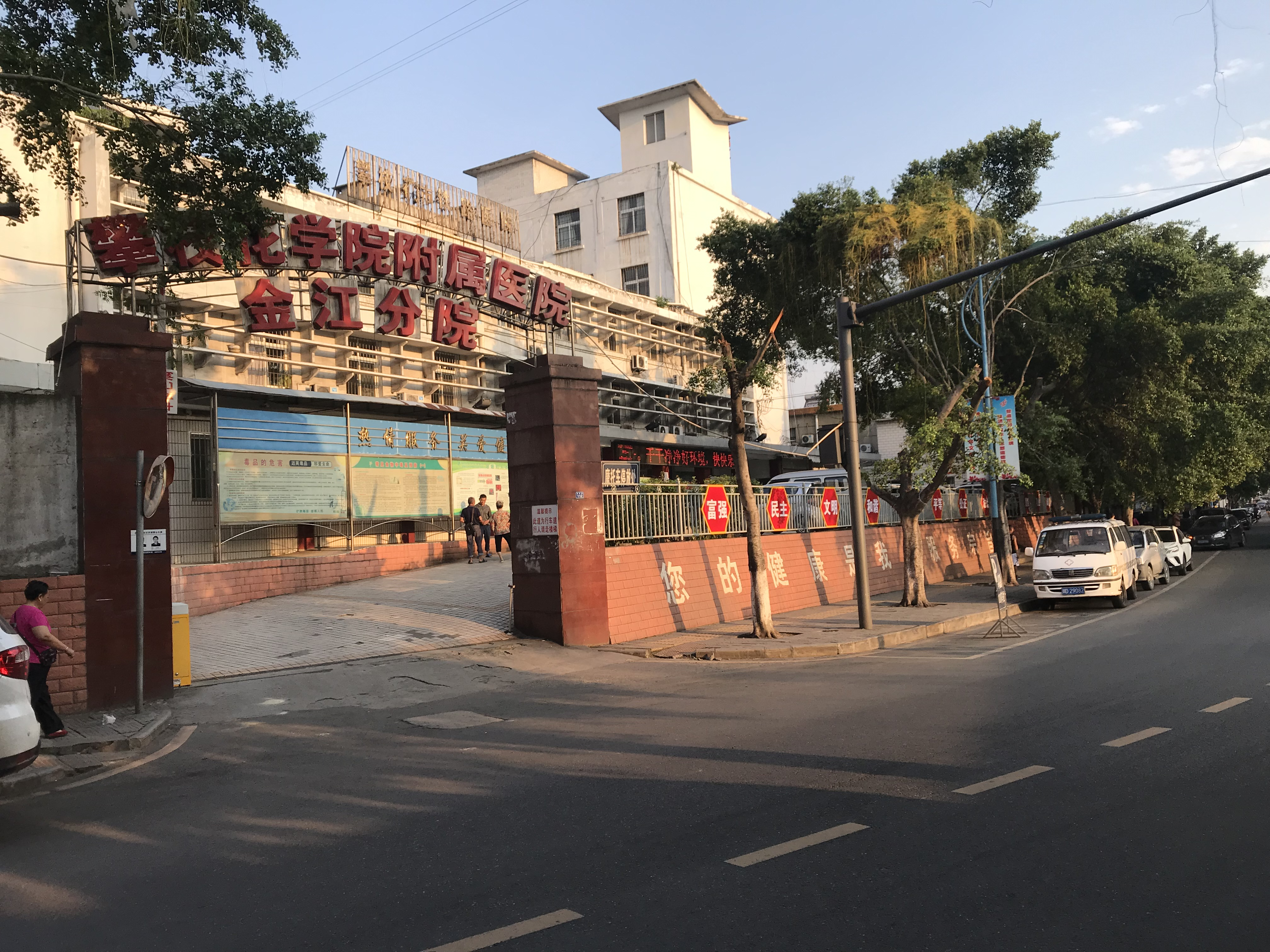 201908 Jinjiang Hospital of Panzhihua University